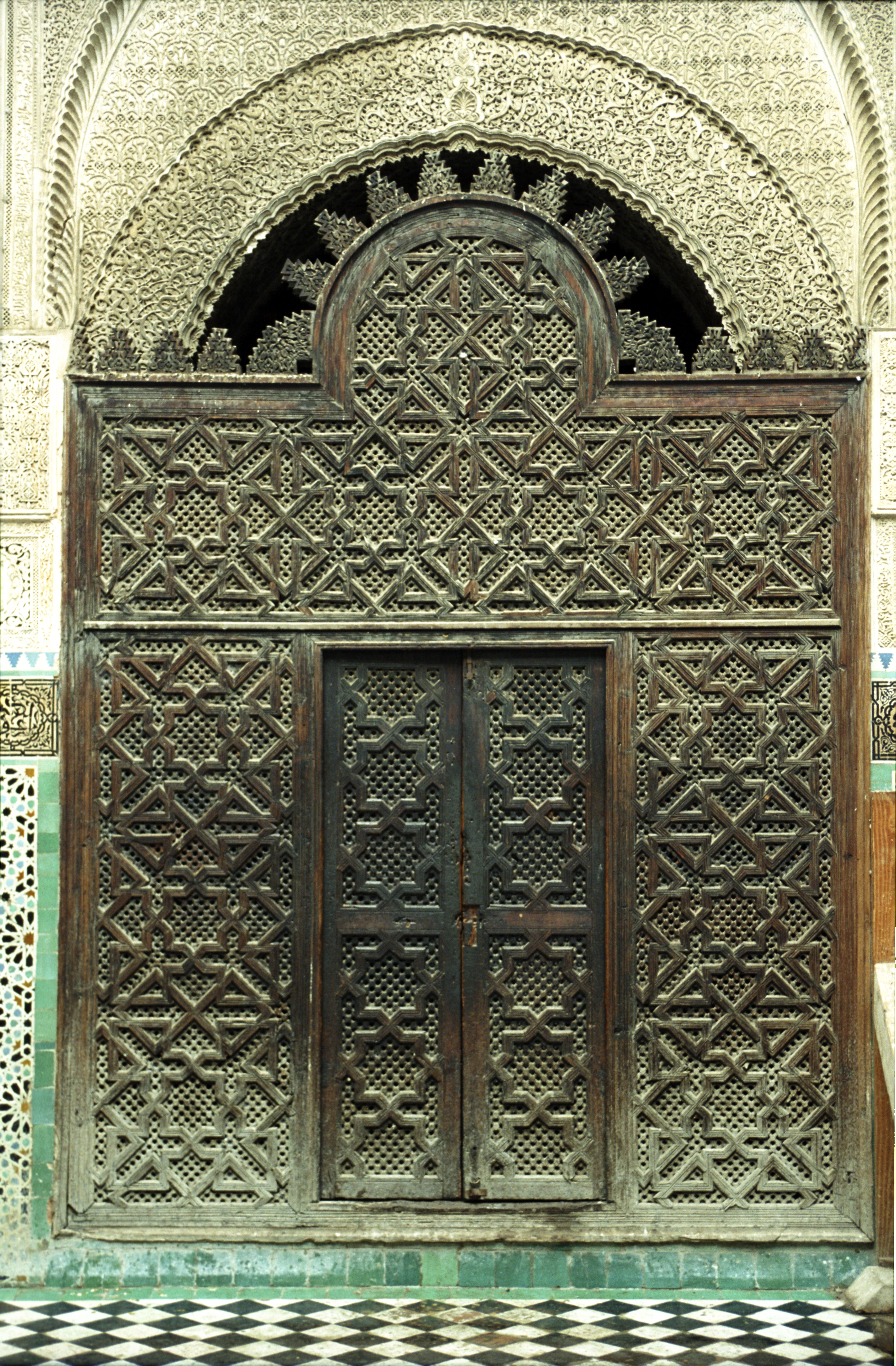 Medresa Al-Attarin, entrance